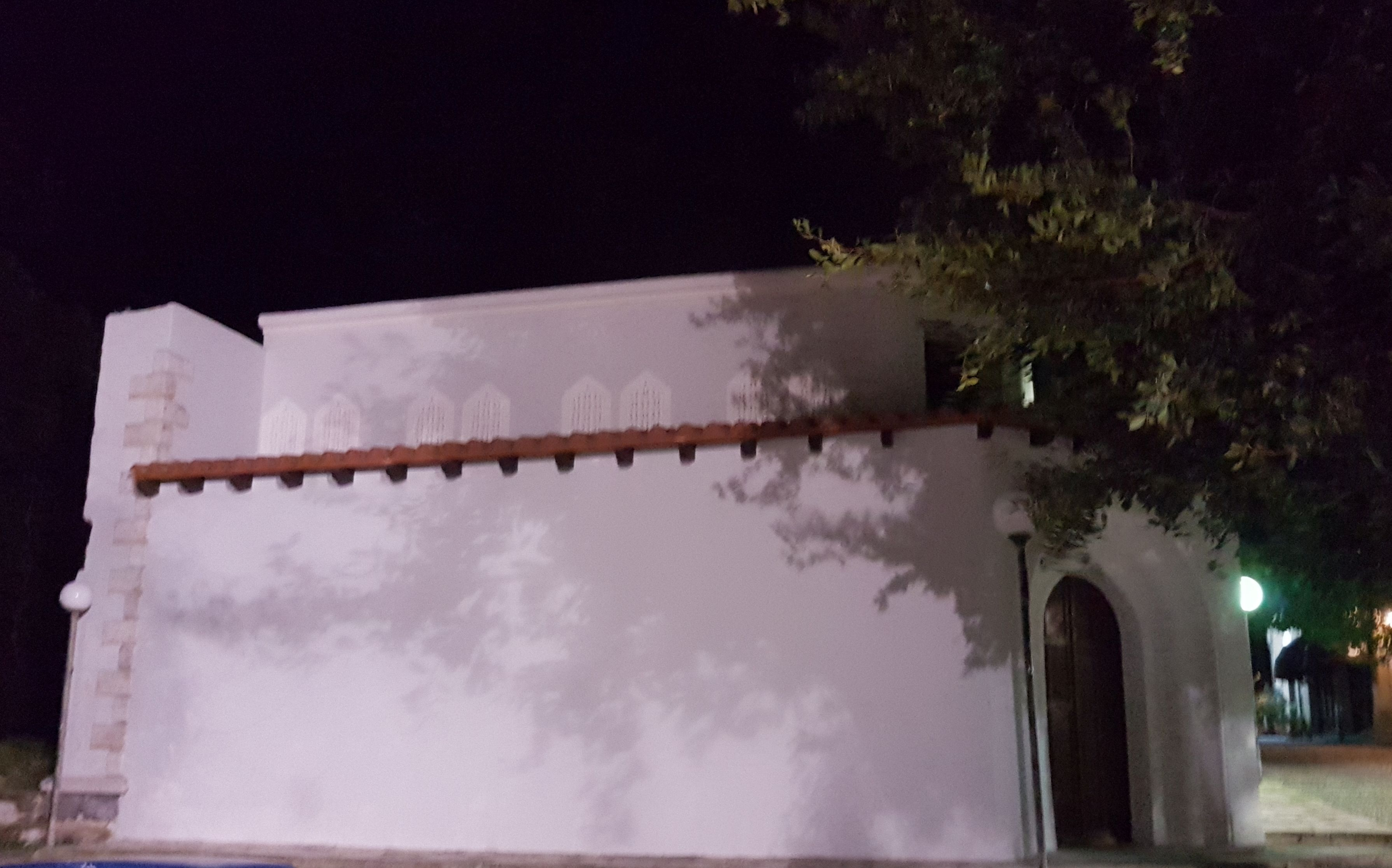 Former Turkish bath (hammam) and later salt depot in the city of Kos on the Greek island of Kos.